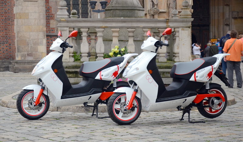 GOVECS GO! S3.4 scooters in front of the Wrocław Cathedral.